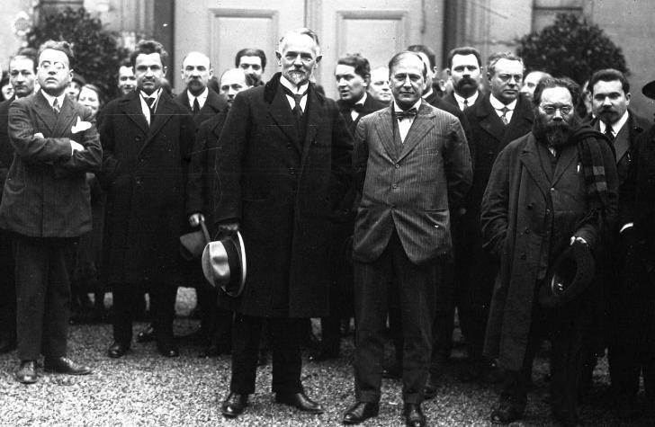 The Soviet Russian Embassy in Paris. In the foreground, from right: Charles Rappoport, the exiled French communist; Christian Rakovsky, the Soviet envoy and suspect Trotskyist militant; Leonid Krasin, the Soviet Ambassador (assassinated months later, succeeded by Rakovsky). Also pictured (second row, far left?) is Boris Mikhailovich Volin, the Comintern man and Embassy Secretary.